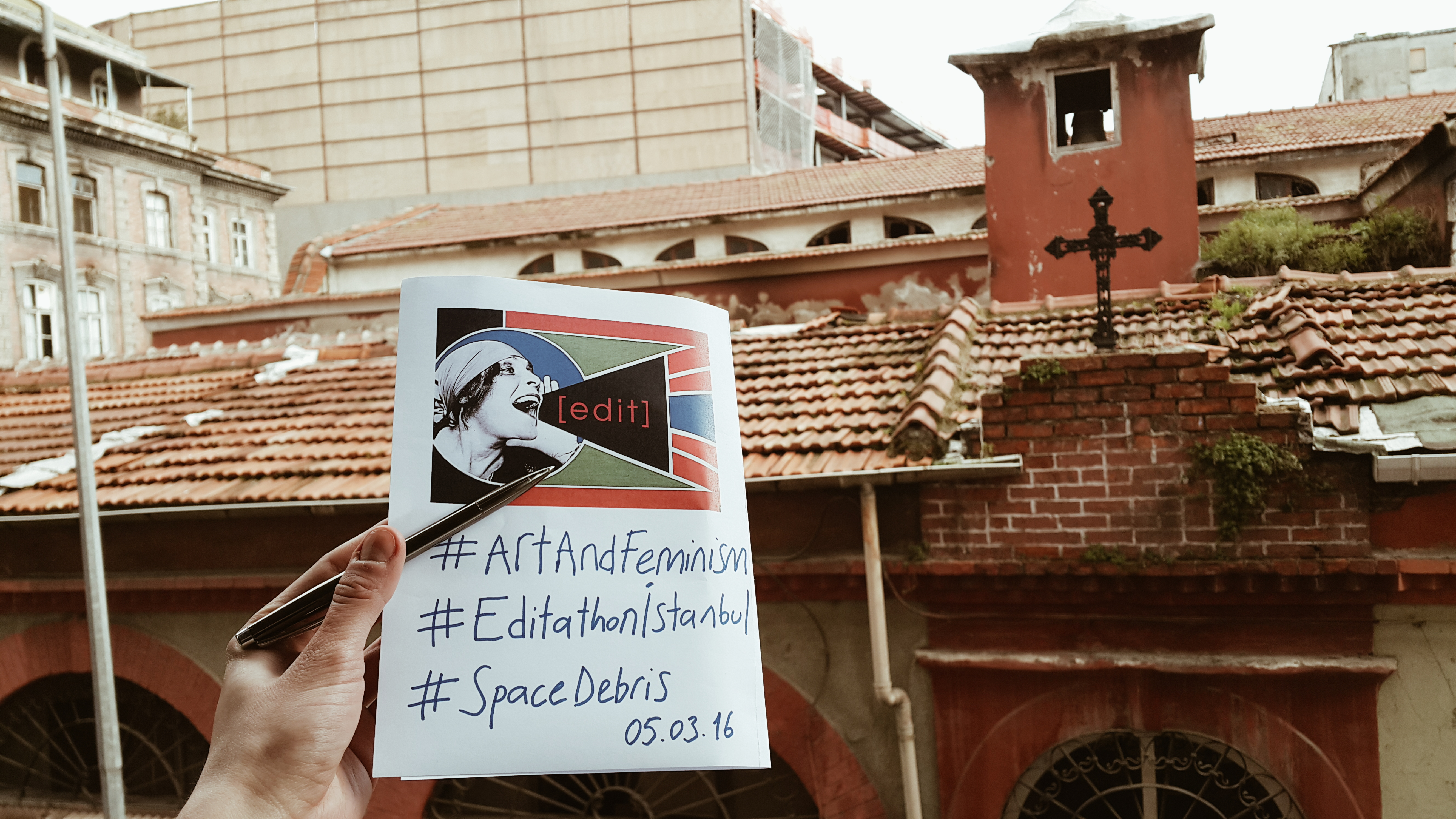 Edit-a-thon in Space Debris, Istanbul